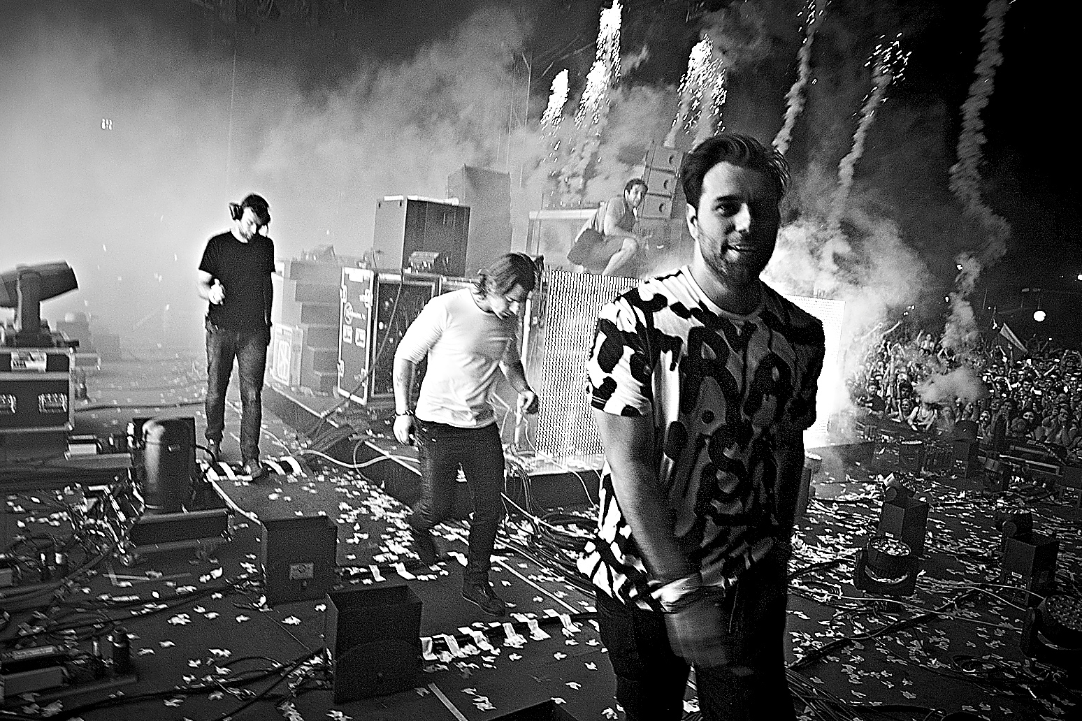 Axwell Ingrosso live on stage